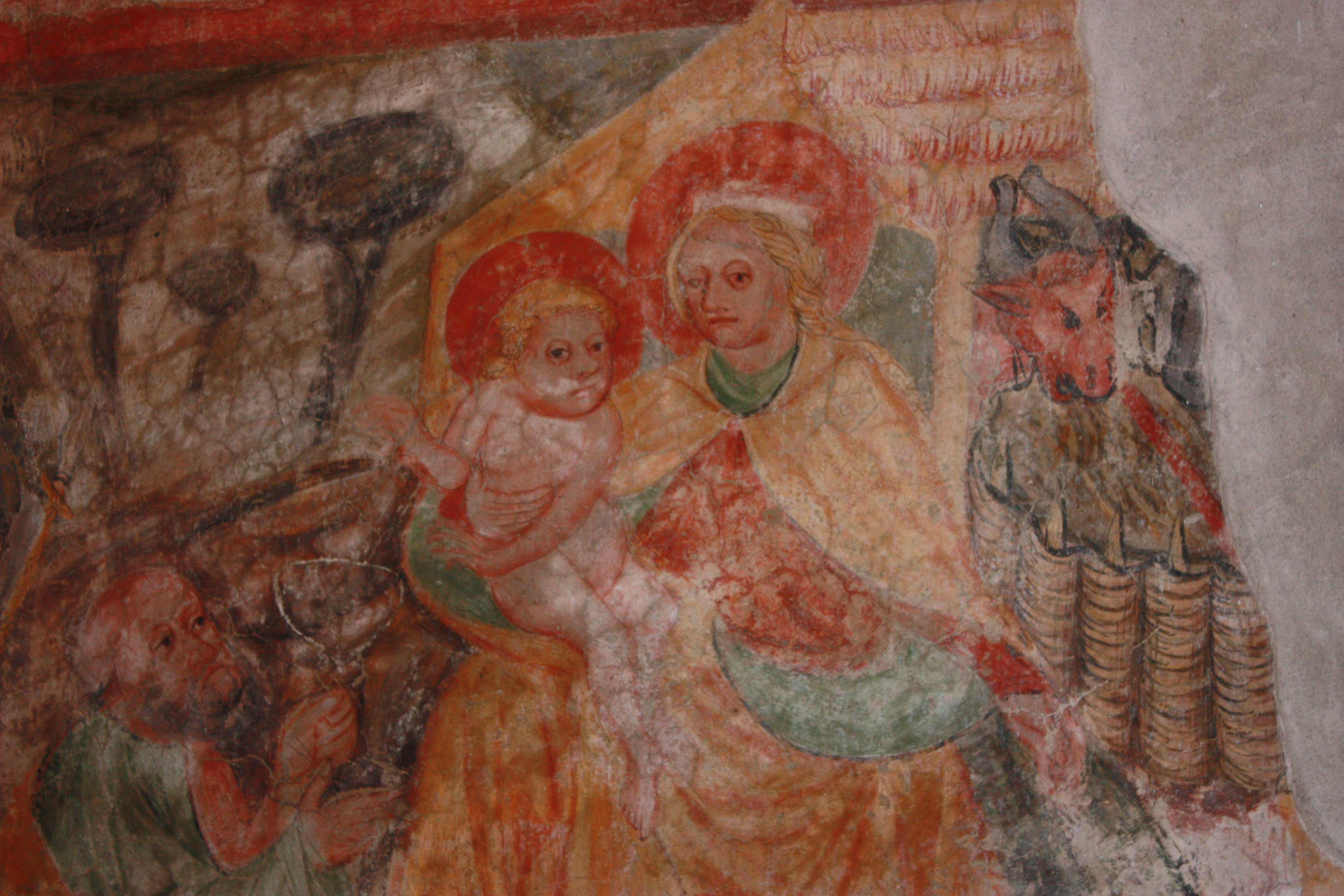 Madonna-fresco in the parish church Pörtschach am Berg in the community Maria Saal